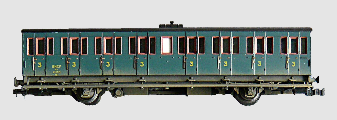 Scale model of Midi 2 axle coach (France).